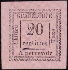 1884 Guadeloupe, 20c black on rose postage due, variety Italic '2'.